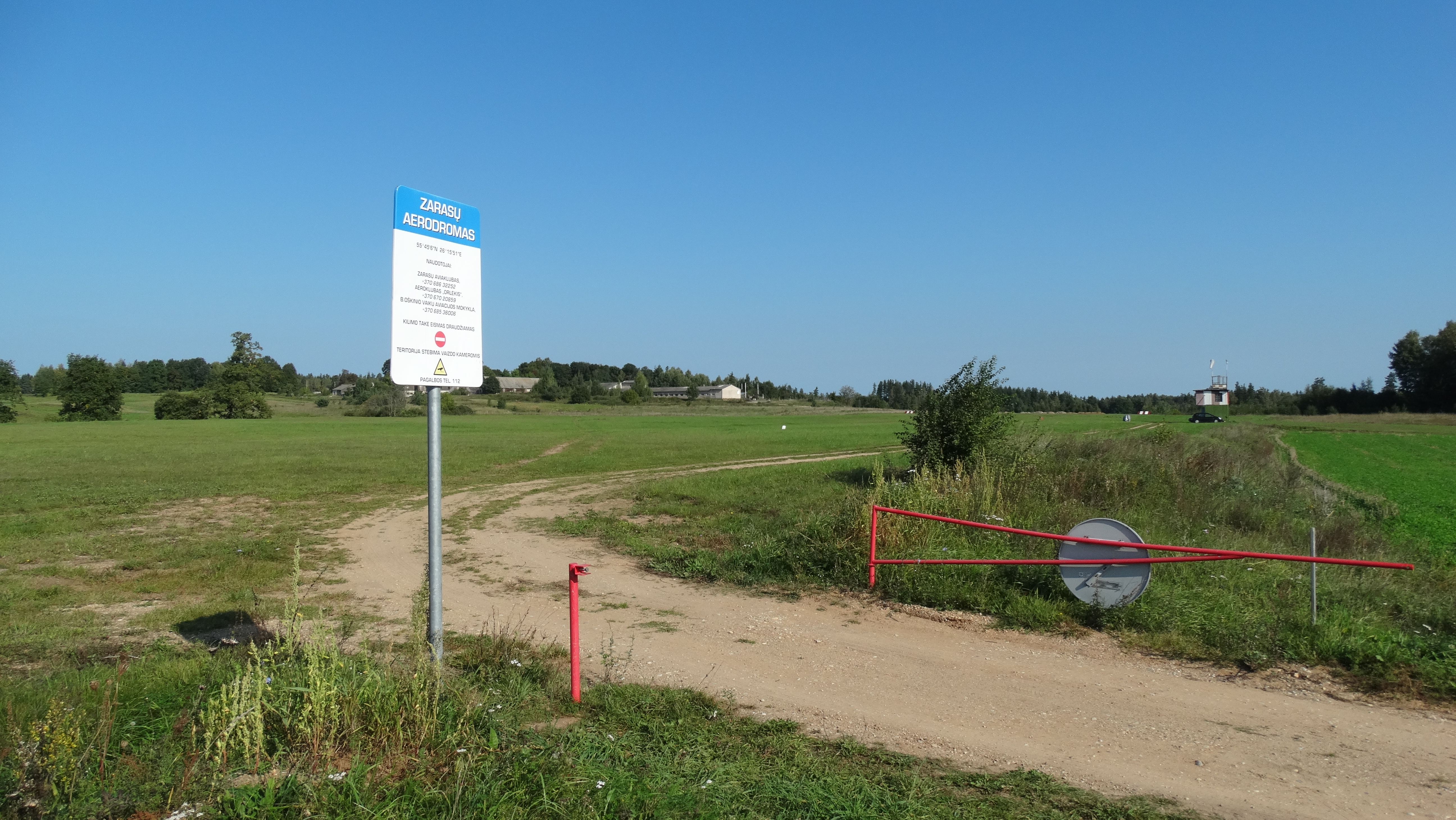 Aerodrome, Dimitriškės, Zarasai District, Lithuania